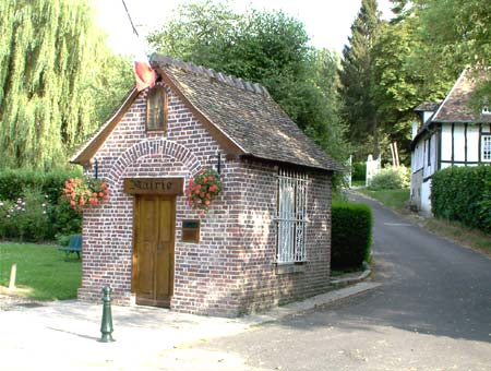 The smallest townhall of Saint-Germain-de-Pasquier in the department of Eure - view normandy